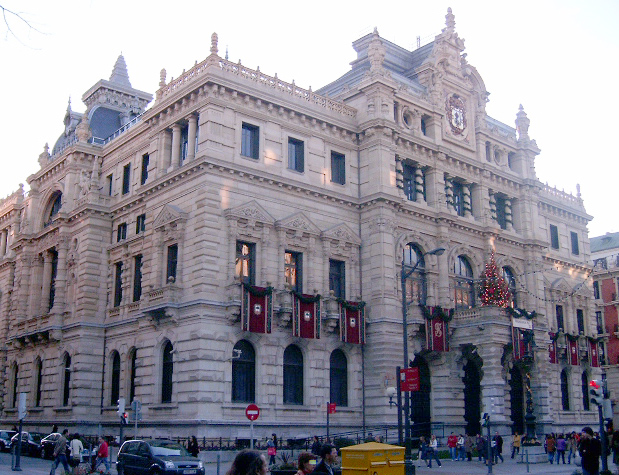 Palace of Foral Government of Biscay, in Bilbao's Main Road, with a Christmas tree